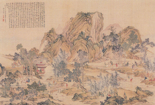 Poetry Gathering at the Orchid Pavilion by Kamasaka Tekizan, Hobara Museum of History and Culture, Date, Fukushima, Japan